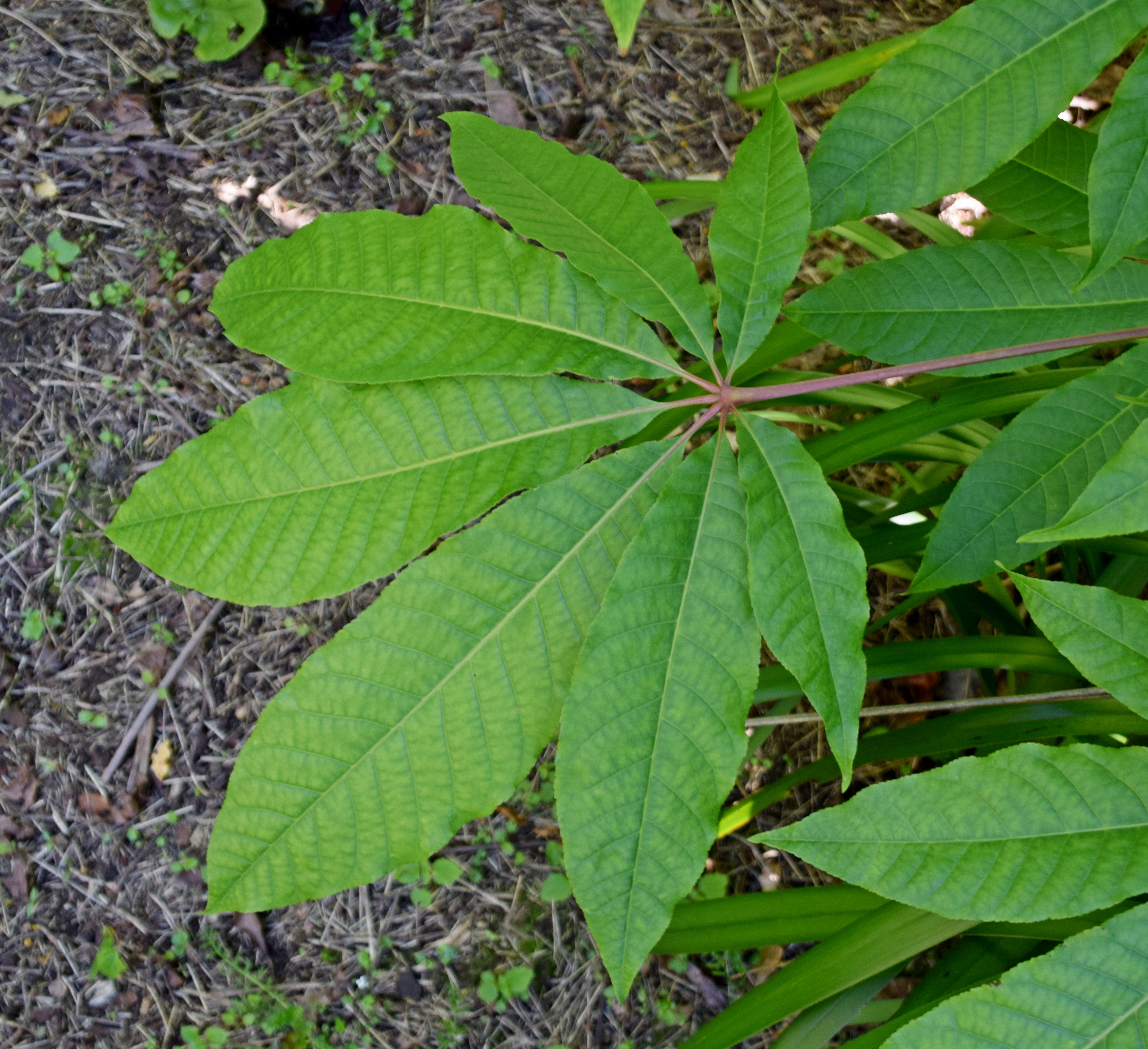 Aesculus indica in Dunedin Botanic Garden, Dunedin, New Zealand